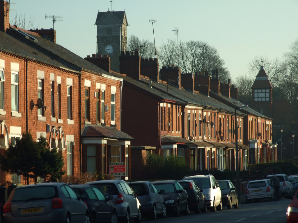 Durnford Street in Middleton, Greater Manchester, England. The Parish church of St Leonard appears over the rooftops